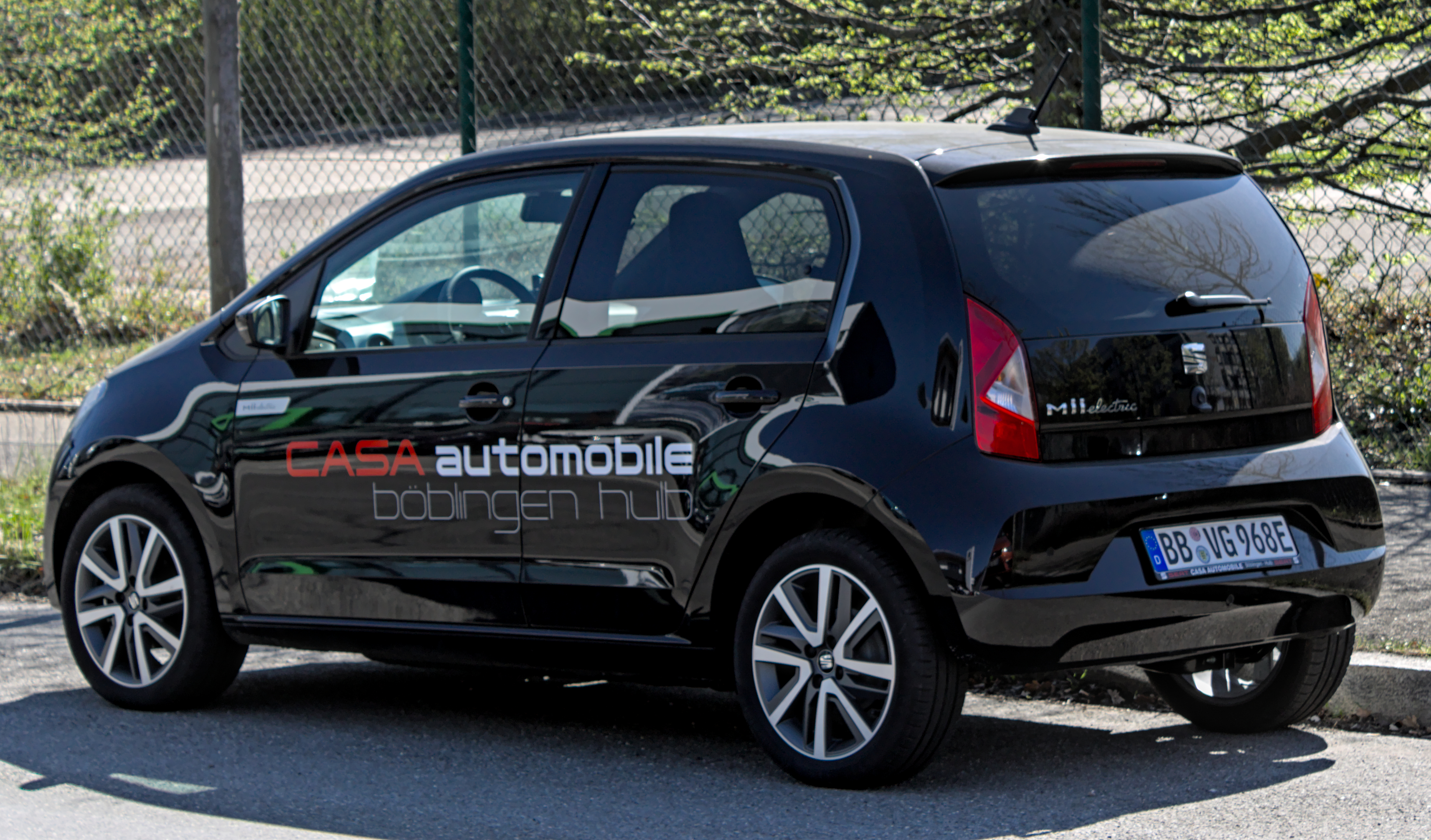 SEAT_Mii_Electric in Böblingen